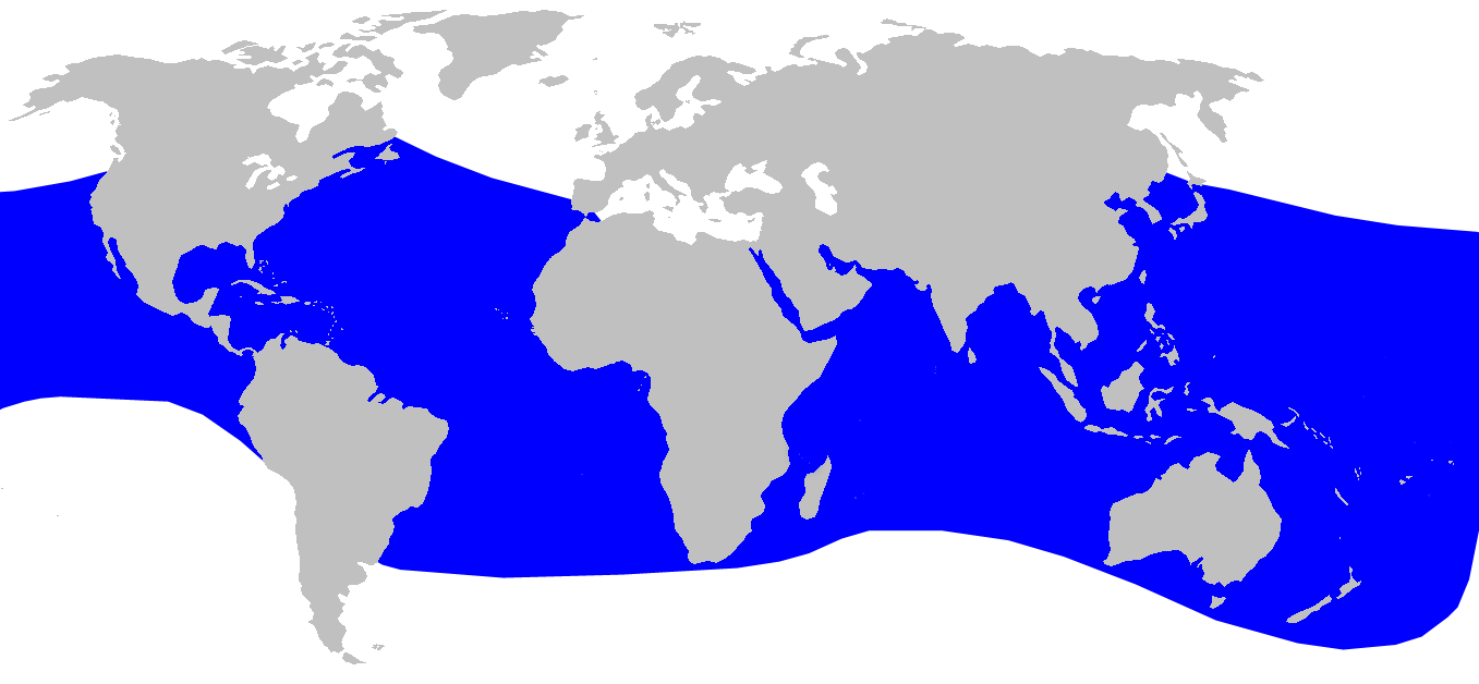 Distribution of Mesoplodon densirostris